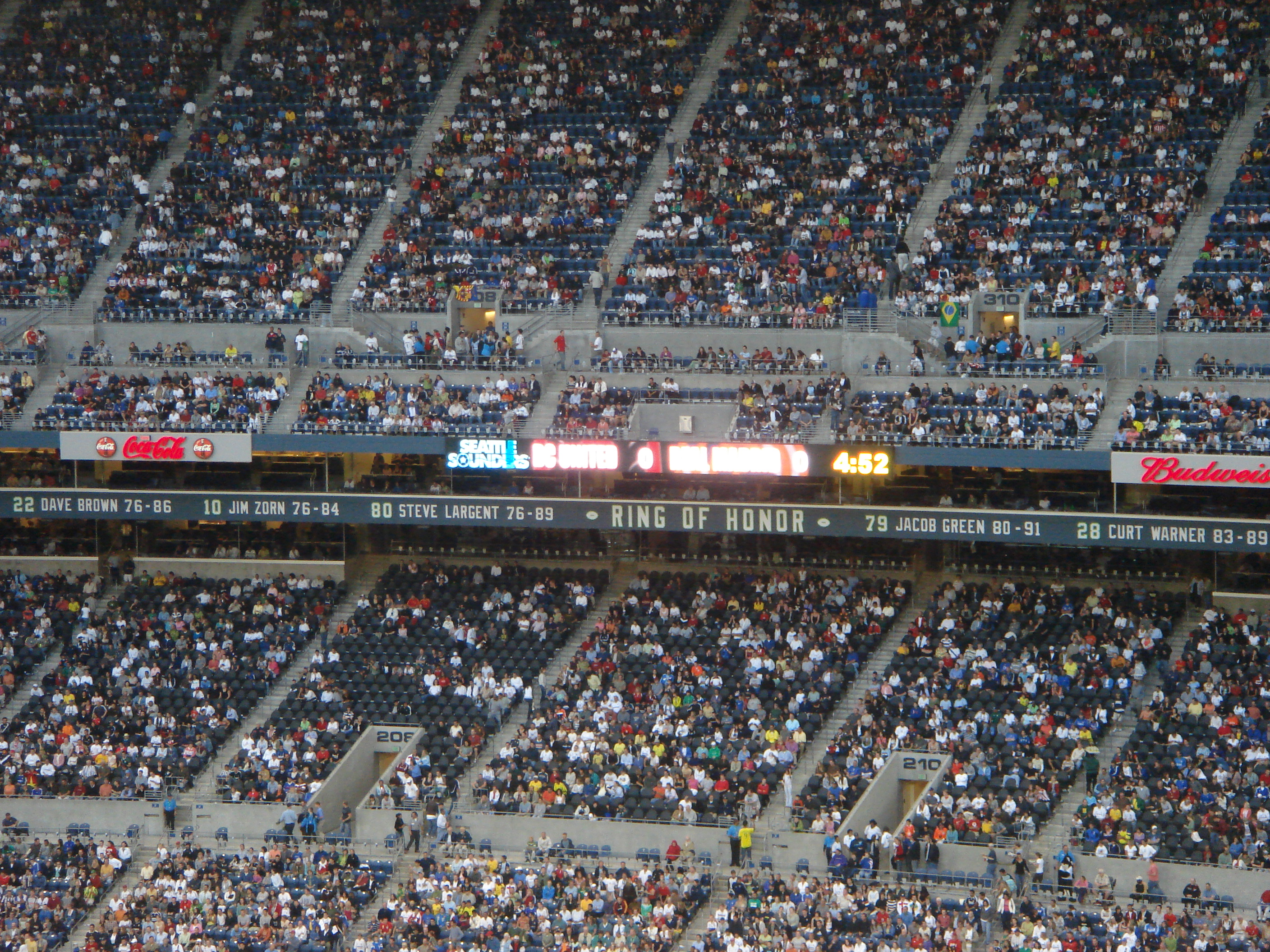 A picture of the Seattle Seahawks Ring of Honor from Flickr.